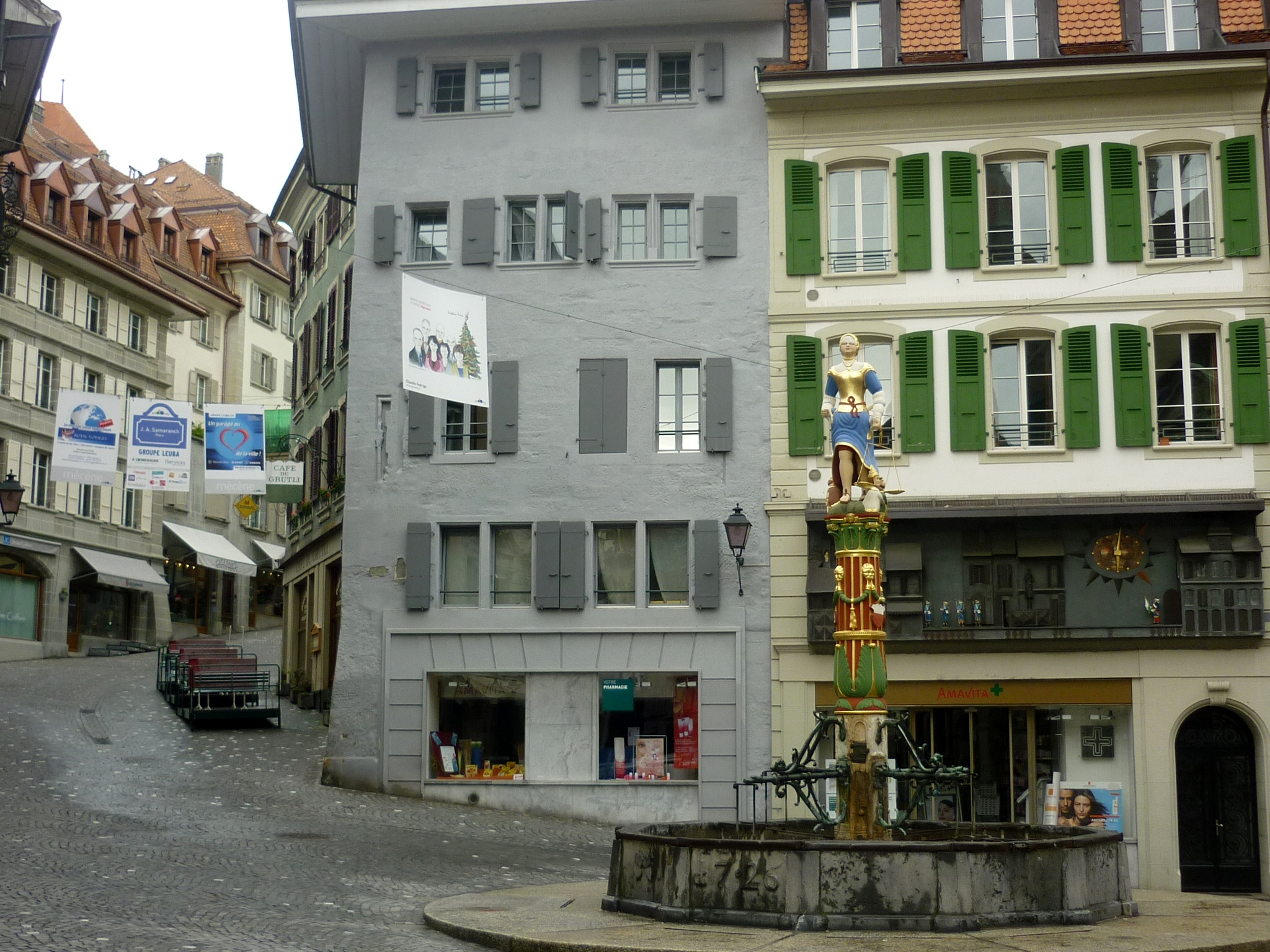 Historic Center with Fountain of Justice, Place de la Palud, Lausanne